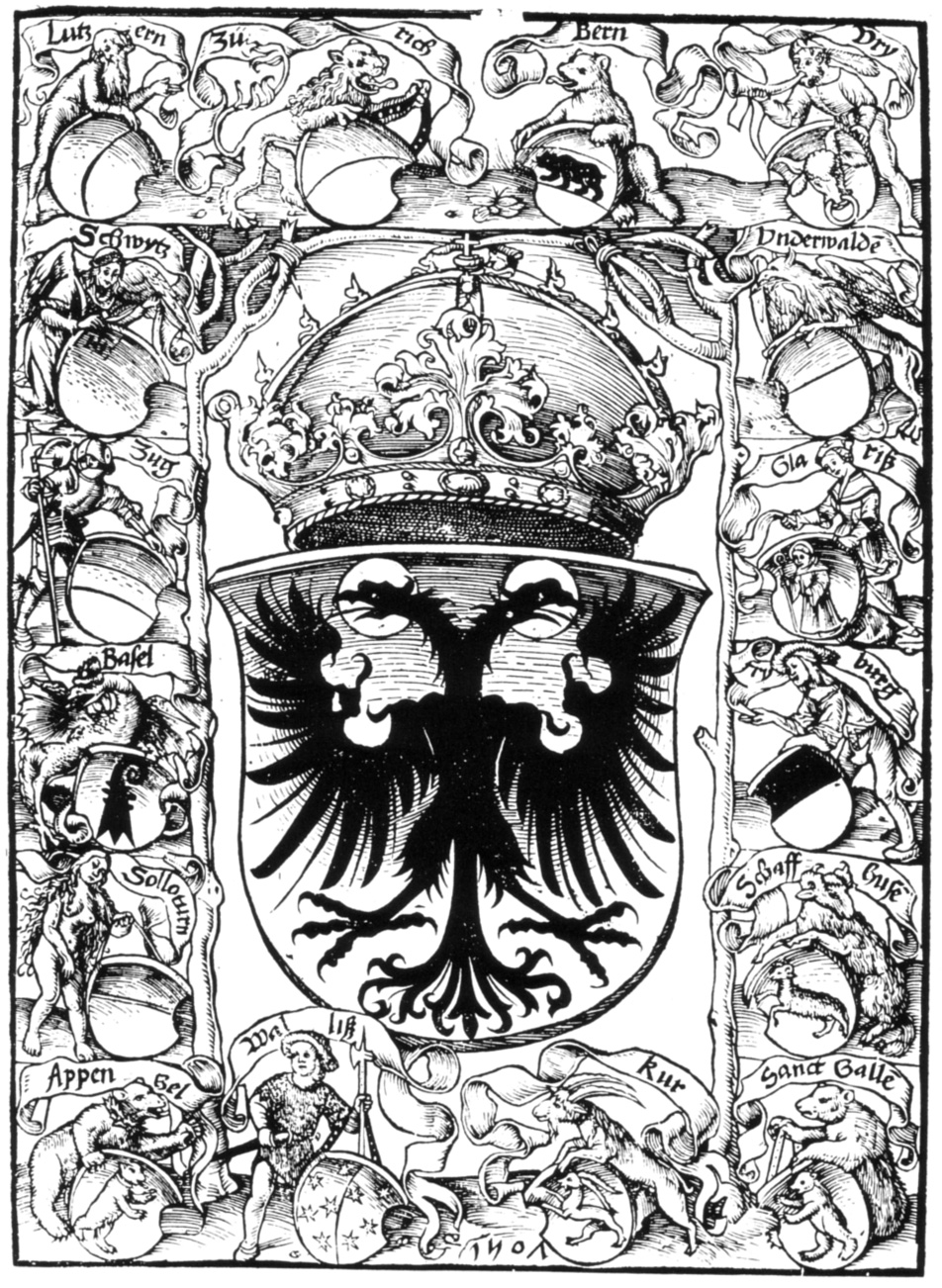 Titlepage of the first printed chronicle of Switzerland by Petermann Etterlin. The imperial eagle surrounded by the coat of arms of the Old Confederacy and its associates.